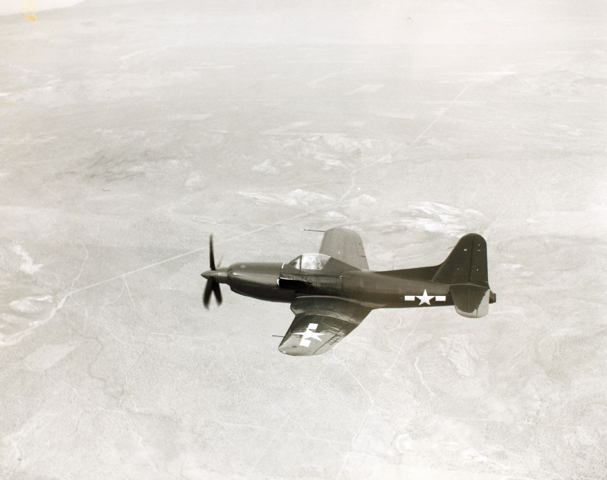 Title: Ryan Aeronautical, XF-2R, Dark Shark Catalog #: 01_00091046 Corporation Name: Ryan Aeronautical Designation: XF-2R Official Nickname: Dark Shark Additional Information: USA, Powered by turboprop and turbojet engines Tags: Ryan Aeronautical, XF-2R, Dark Shark Repository: San Diego Air and Space Museum Archive